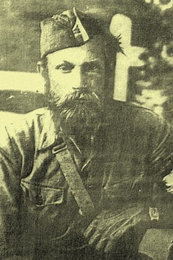 Taras Borovets – leader of Polisian Sich.